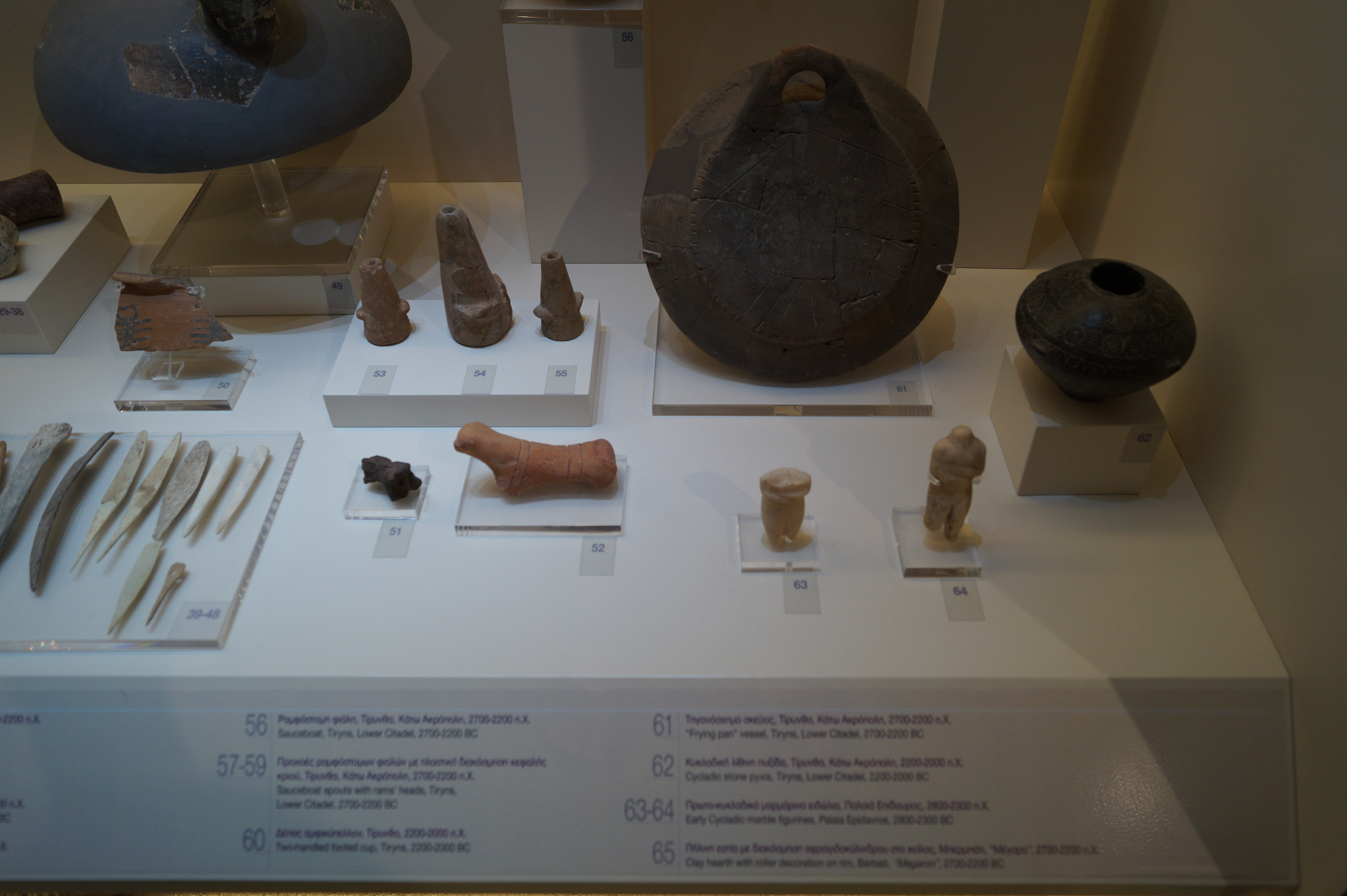 Nafplio, Argolis, Greece: Archaeological Museum of Nafplio: Early Helladic Findings from Tiryns and two figurines from Palaia Epidauros. No. 63 is a cycladic figurine (Spedos variety) from the hill Koloti (possibly the site of the Hyrnethium).